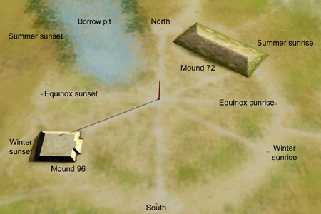 A diagram of solstice and equinox sunset and sunrise positions at the location of Mound 72 and Mound 96 Cahokia Mounds site near Collinsville, Illinois, USA.